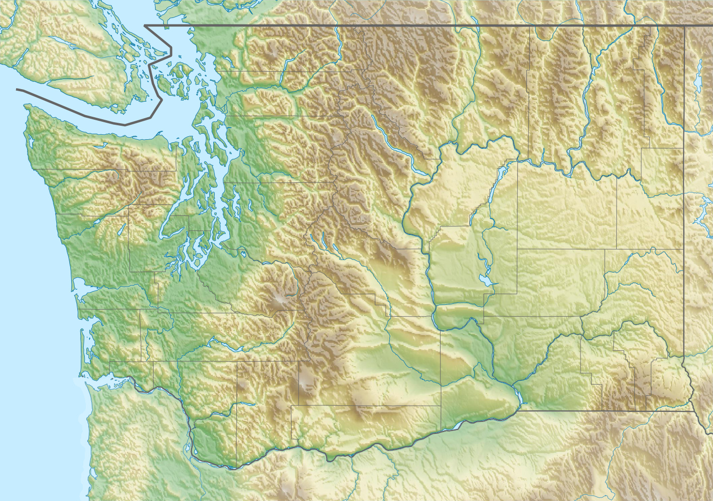 Physical location map of Washington, USA Equirectangular projection, N/S stretching 150.0 %. Geographic limits of the map: N: 49.2° N S: 45.3° N W: 125.0° W E: 116.7° W